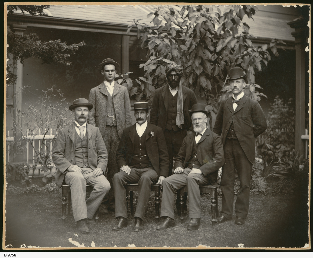 Calvert Expedition of 1896-97. Standing (left to right) GL Lucas, Dervish Bejah, Alec Magarey (not a member of the party) Sitting : CF Wells, L Wells, GA Keartland. This scientific exploring expedition took place in central and northern Western Australia in 1896 and 1897, using camels as the principal means of transport. Members of the expedition were Larry Wells (leader), Charles Wells (his cousin and second in command), George Jones (mineralogist and photographer), George Keartland (naturalist), James Trainor with Dervish Bejah and Said Ameer (camel drivers) and 20 camels.